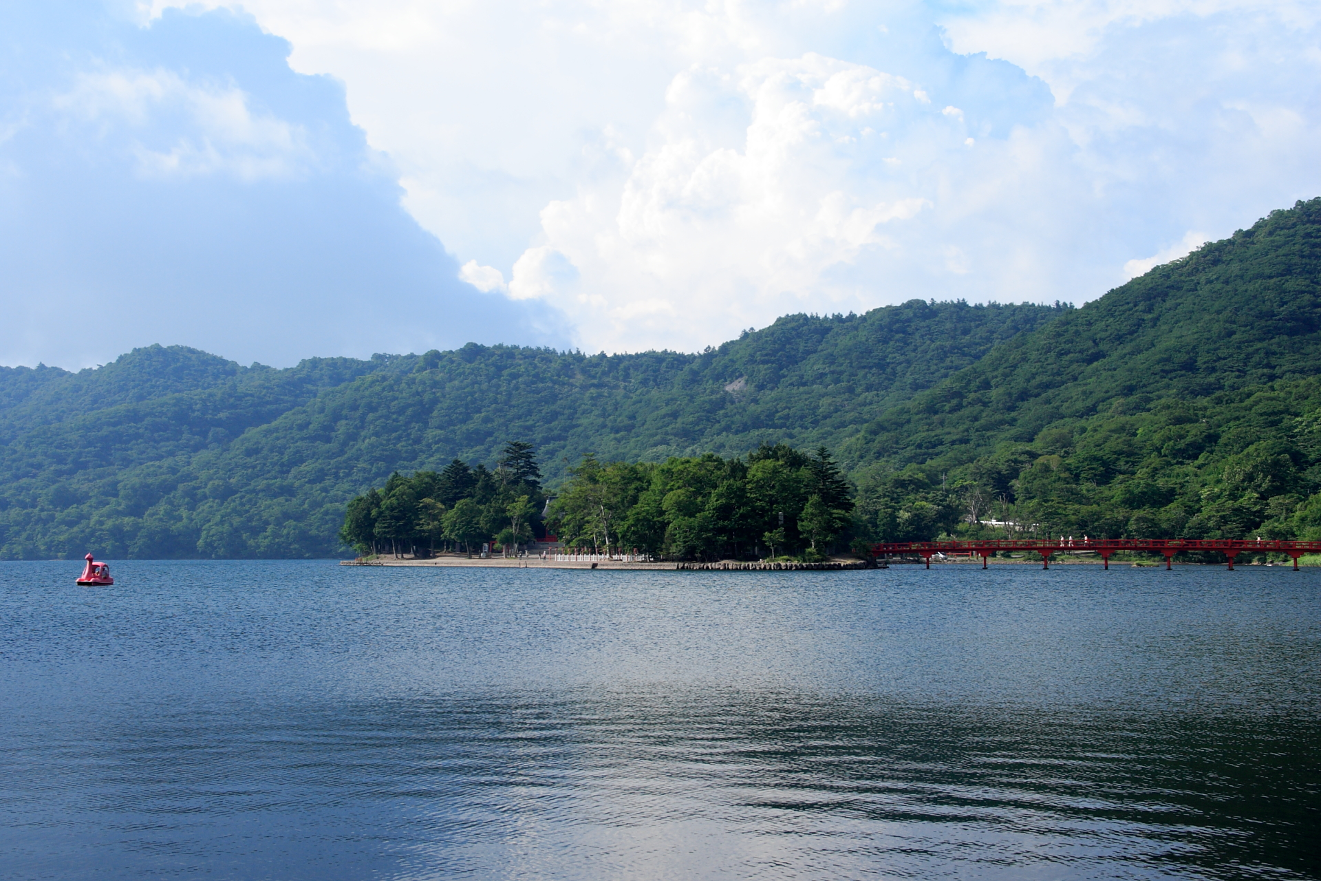 大沼に浮かぶ赤城神社, Island of the Akagi shrine